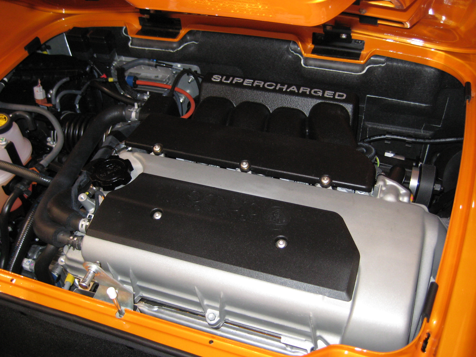 Toyota 2ZZ-GE 1.8L supercharged engine on Lotus Elise SC